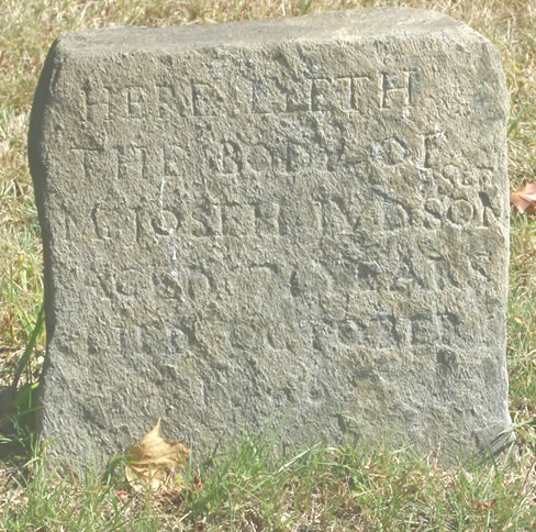 Judson Judson d. 1690 Gravestone in Stratford CT "HERE LYETH THE BODY OF Mr JOSEH JVDSON Sen AGED 70 YEARS DIED OCTOBER 1690"